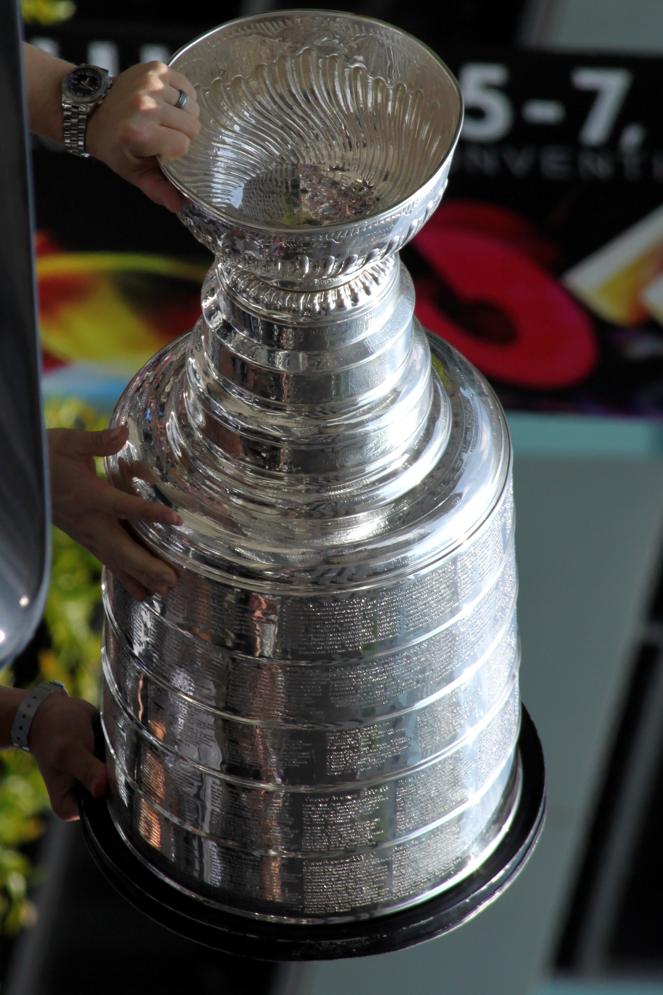 After long over due 45 years waiting, finally STANLEY CUP belong to Los Angeles Kings